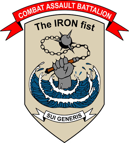 Emblem of Combat Assault Battalion, 3d Marine Division. Formerly the emblem of 1st AABn, 1st Amtrack Battalion and 1st Tracked Vehicle Battalion.